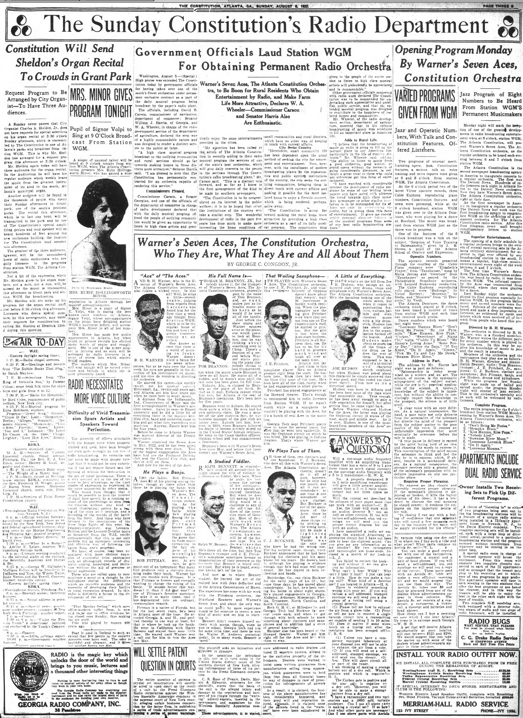 "The Sunday Constitution's Radio Department" page, from the August 6, 1922 issue of the Atlanta Constitution (page 3). Includes extensive coverage of the newspaper's radio station, WGM.